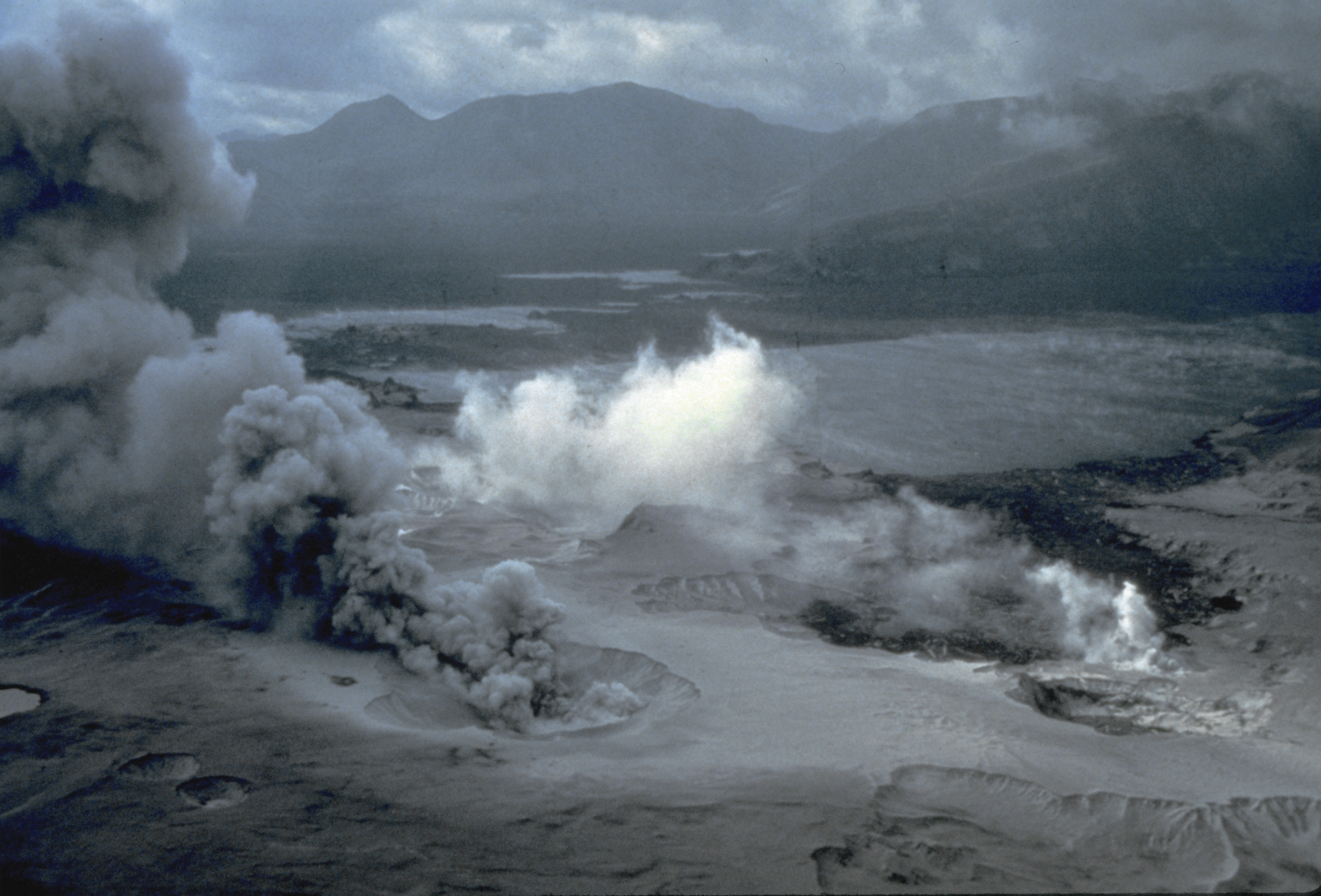 Spirit Lake, Pumice Plain, and phreatic explosions, soon after the May 18, 1980 eruption of Mount St. Helens.